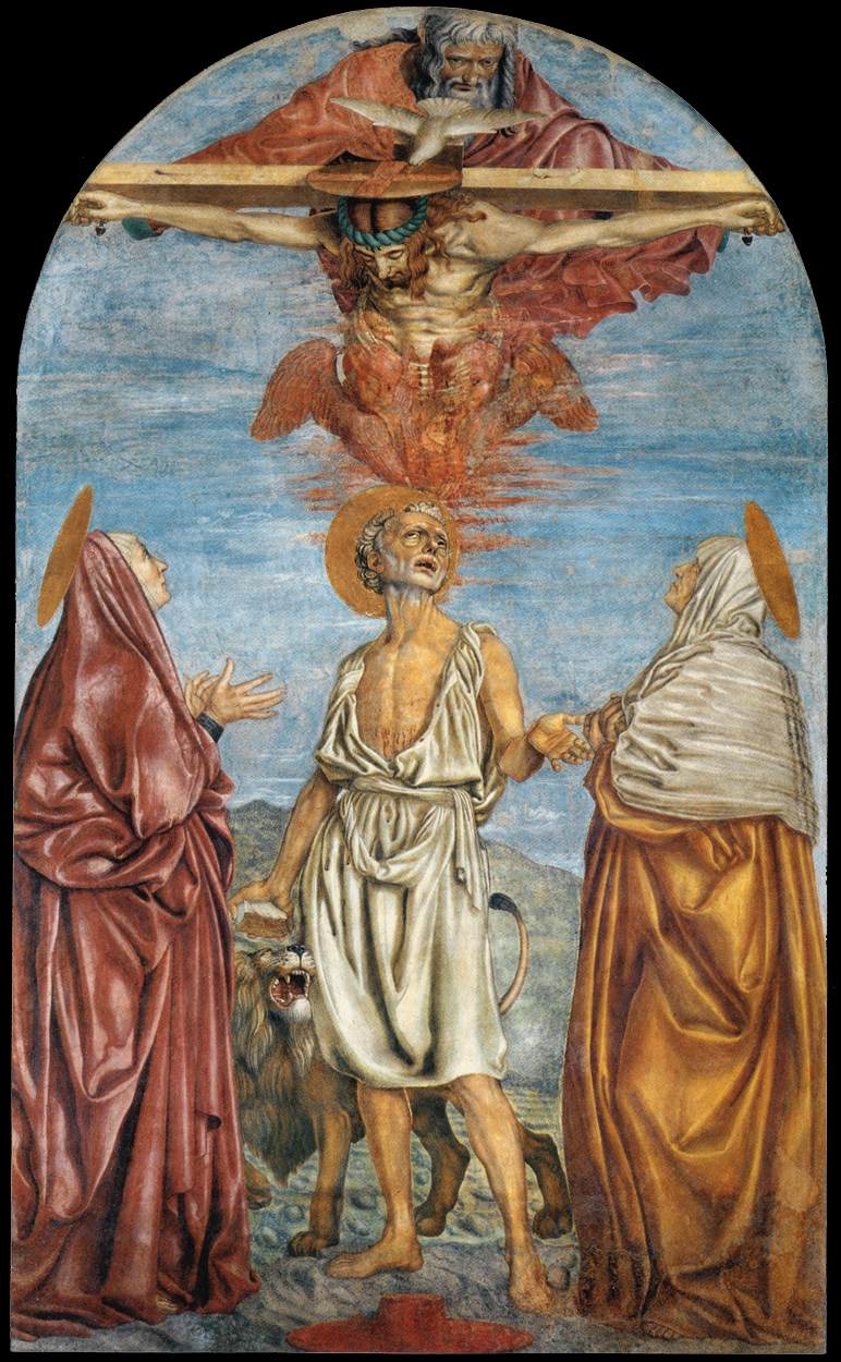 The Holy Trinity, St Jerome and Two Saints, Fresco SS. Annunziata, Florence. The two saints are Saints Paula and Eustochium who funded and who assisted as secretaries Jerome's translation into Latin from the Hebrew and Greek of the Vulgate Bible. They already had Greek and studied Hebrew for the task. They are now forgotten but for centuries the Bible included Prefaces to the books written by Jerome to Eustochium, Paula's daugher.